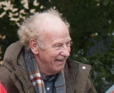 Jon Skolmen at the set of The Stig-Helmer Story, September 2010